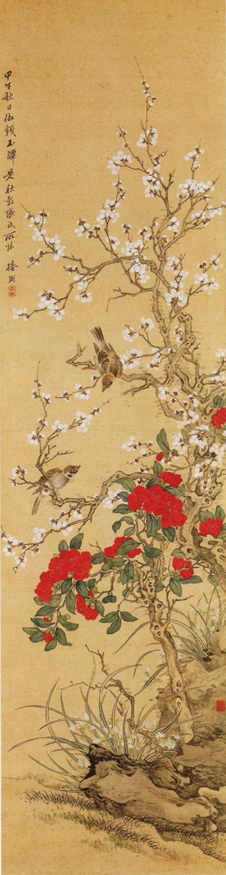 Birds and Flowers after Chang Qiugu part 2 ;pair of hanging scrolls,colors on silk 絹本着色